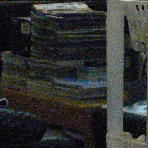 Noise clearly seen in this photo.